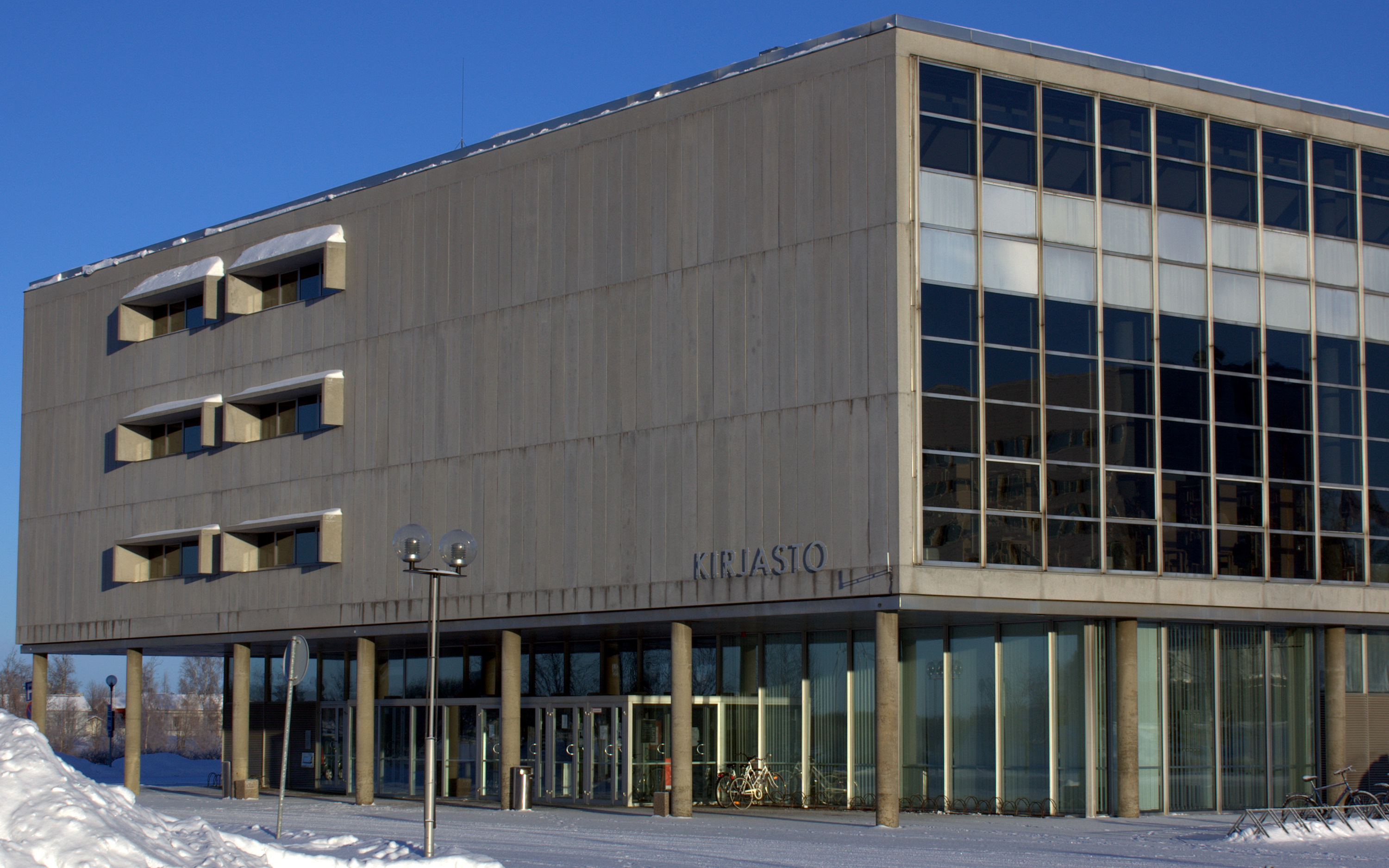 The main municipal library of Oulu, Finland. The building was designed by architects Marjatta and Martti Jaatinen and it was completed in 1982.